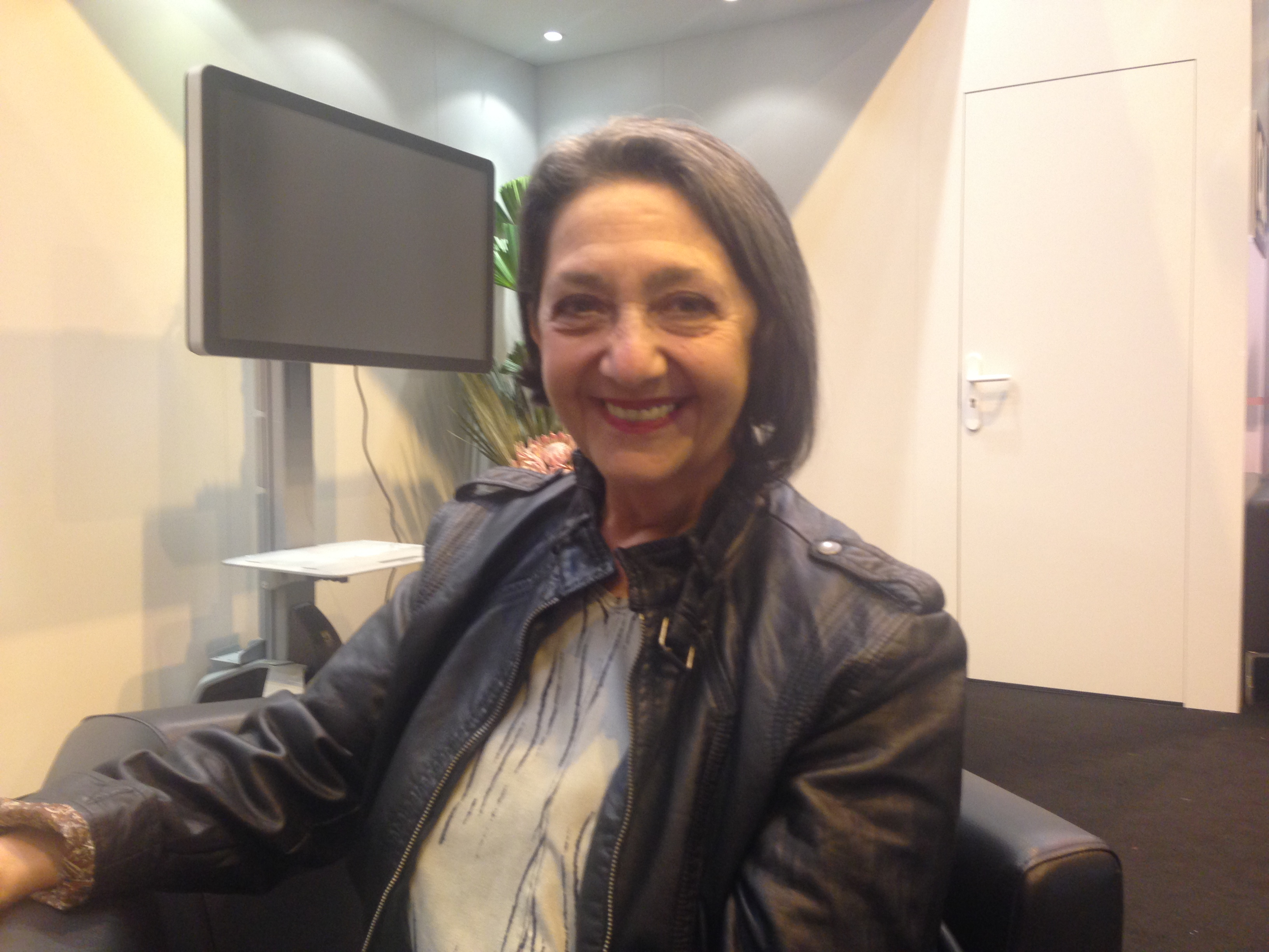 Paris Book Fair, 21-24 March 2014.